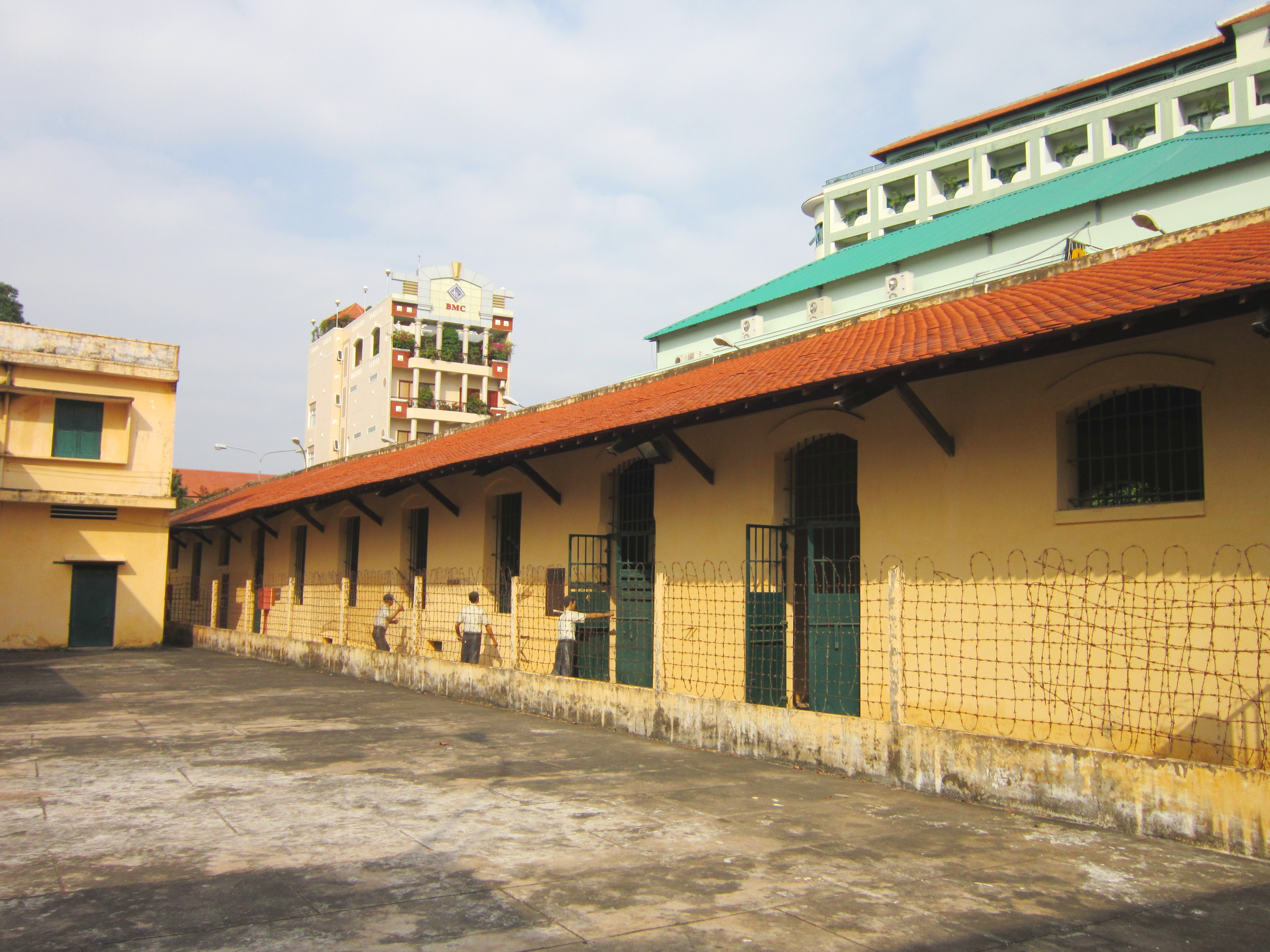 Dãy phòng giam tù nhân nam trong khu di tích Khám lớn Cần Thơ (Việt Nam).